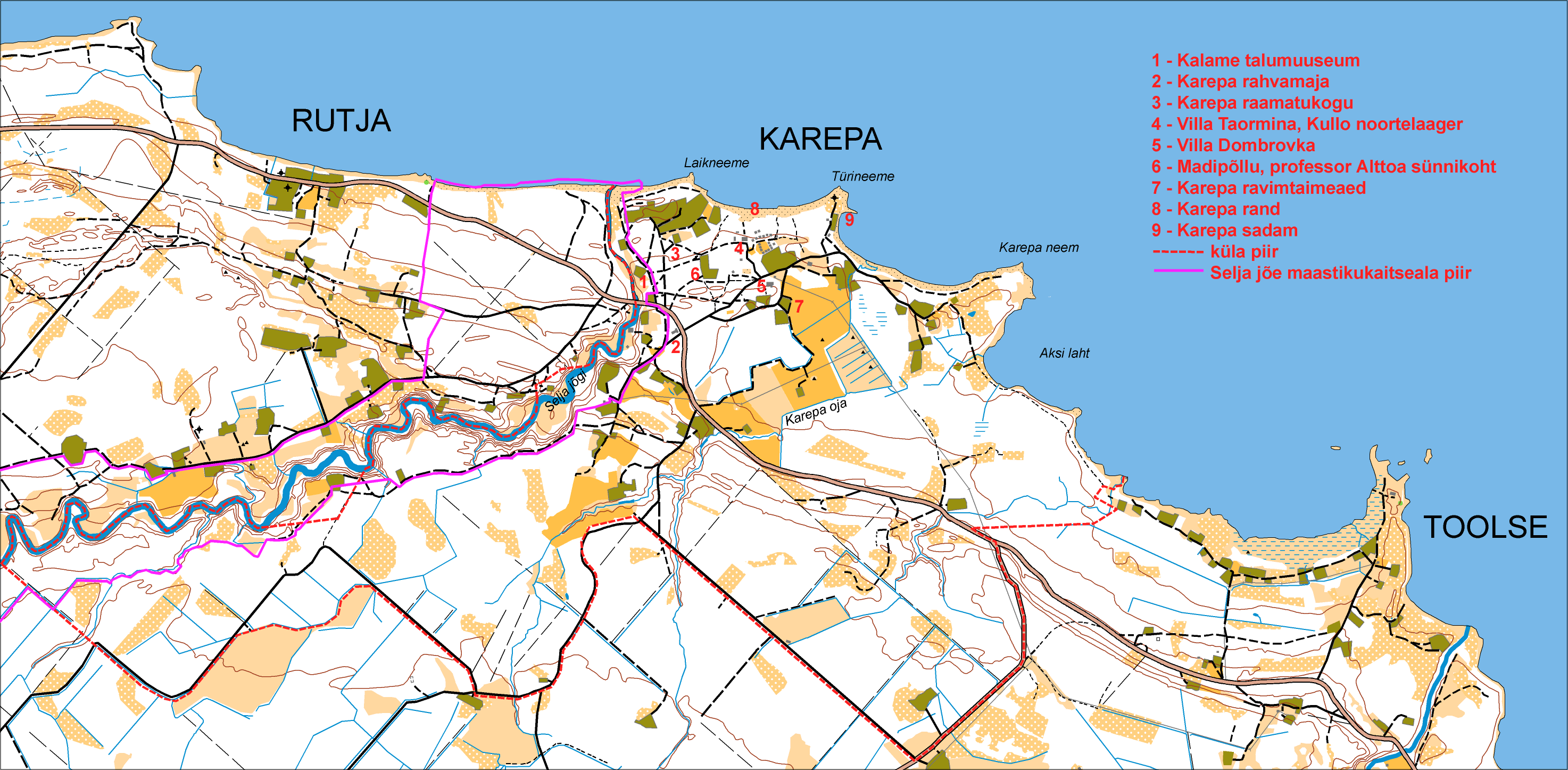 Map of Karepa village in Estonia